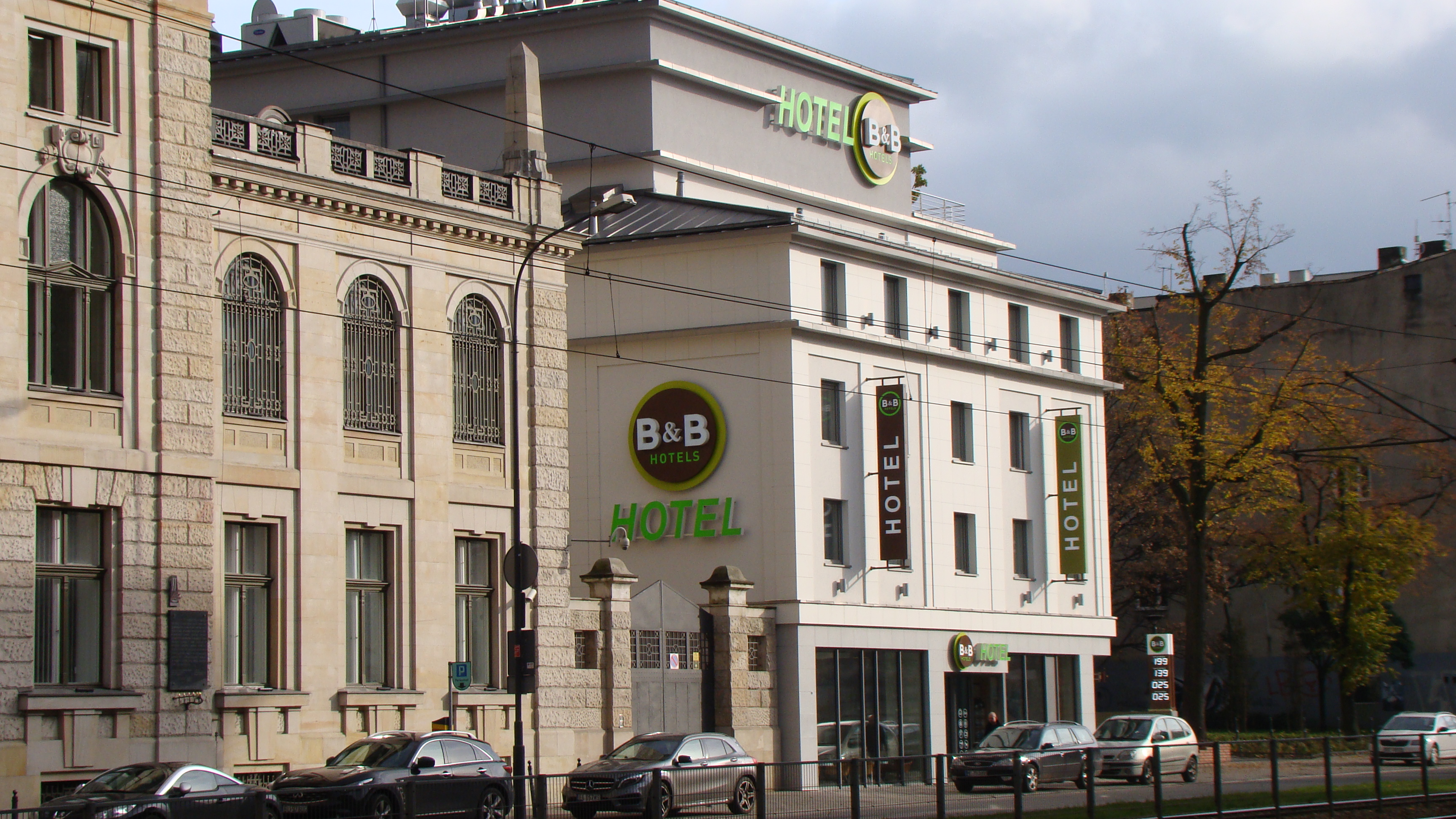 B&B – 16 Kościuszki Avenue in Łódź